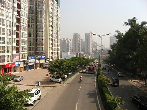 View of the eastern part of Bashan,Chongqing.